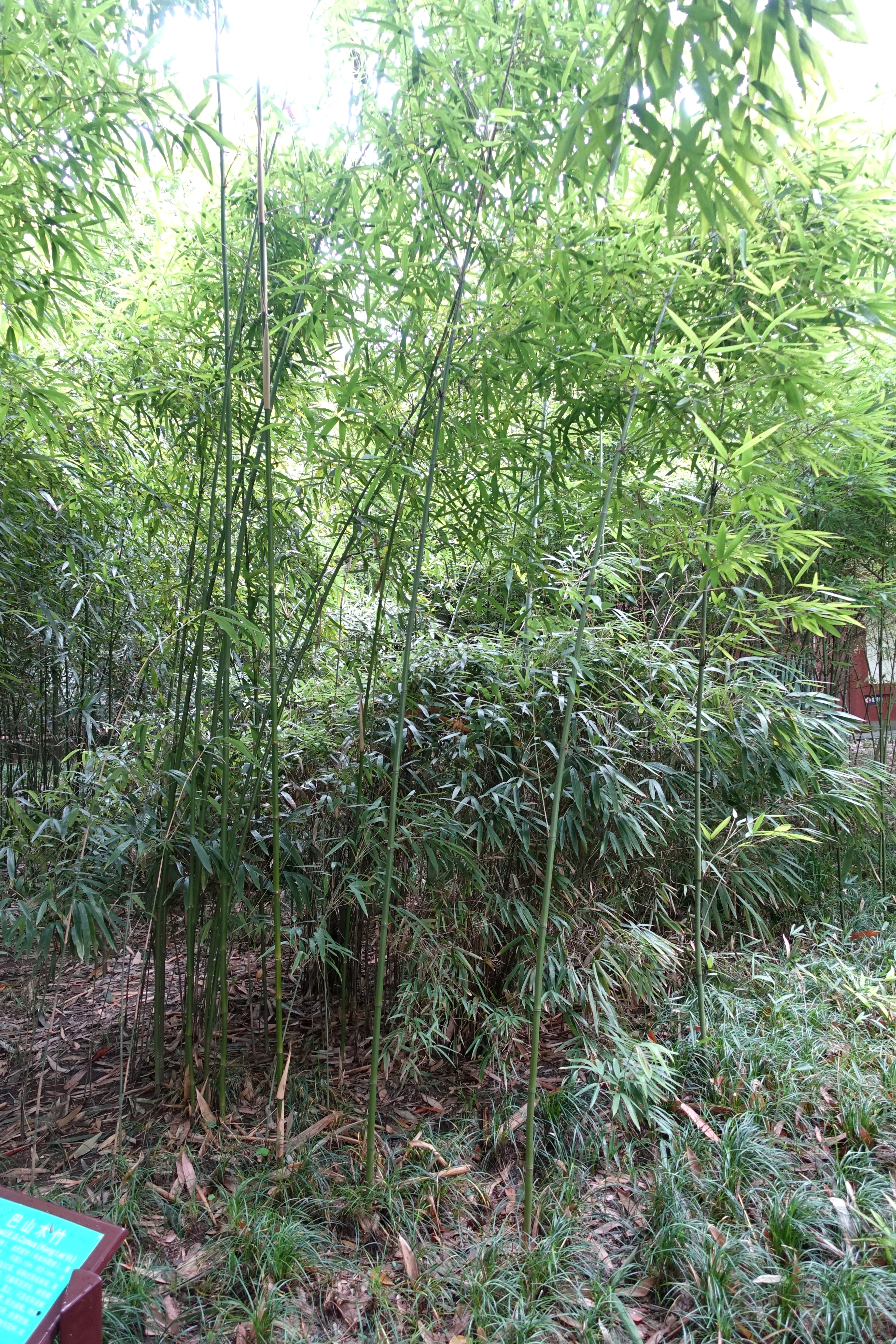 Bamboo specimen in Wangjianglou Park (望江楼公园) - Chengdu, Sichuan, China.